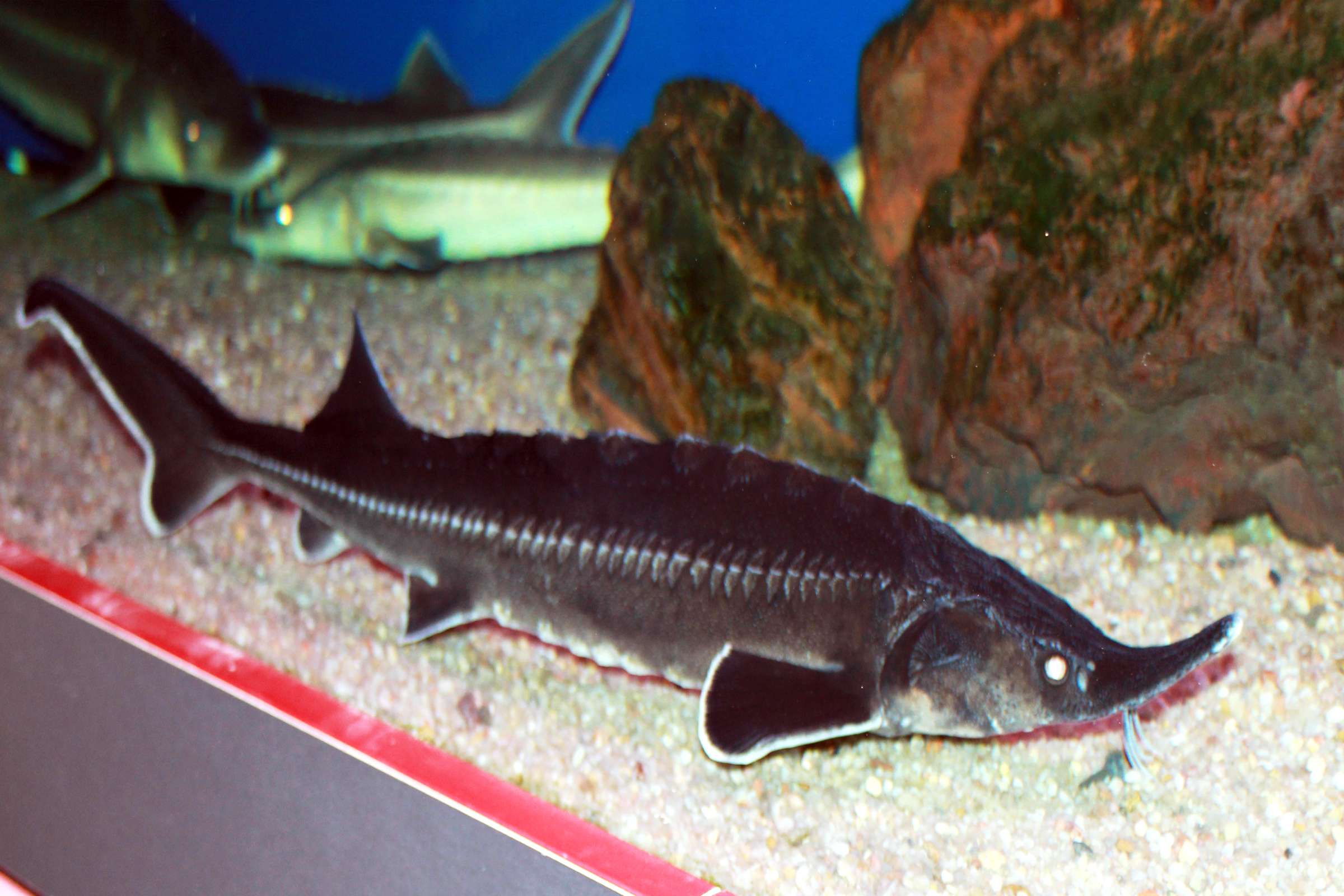 Fish Sterlet on exhibition Subaqueous Vltava, Prague 2011, Czech Republic